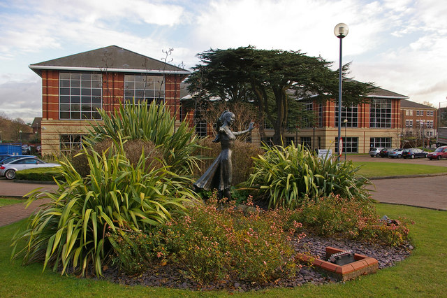 Watson Wyatt offices and Margot Fonteyn statue These modern offices are the UK headquarters of Watson Wyatt. The statue in the foreground is of the ballerina Dame Margot Fonteyn, who was born in 1919 in Deerings Road, Reigate.